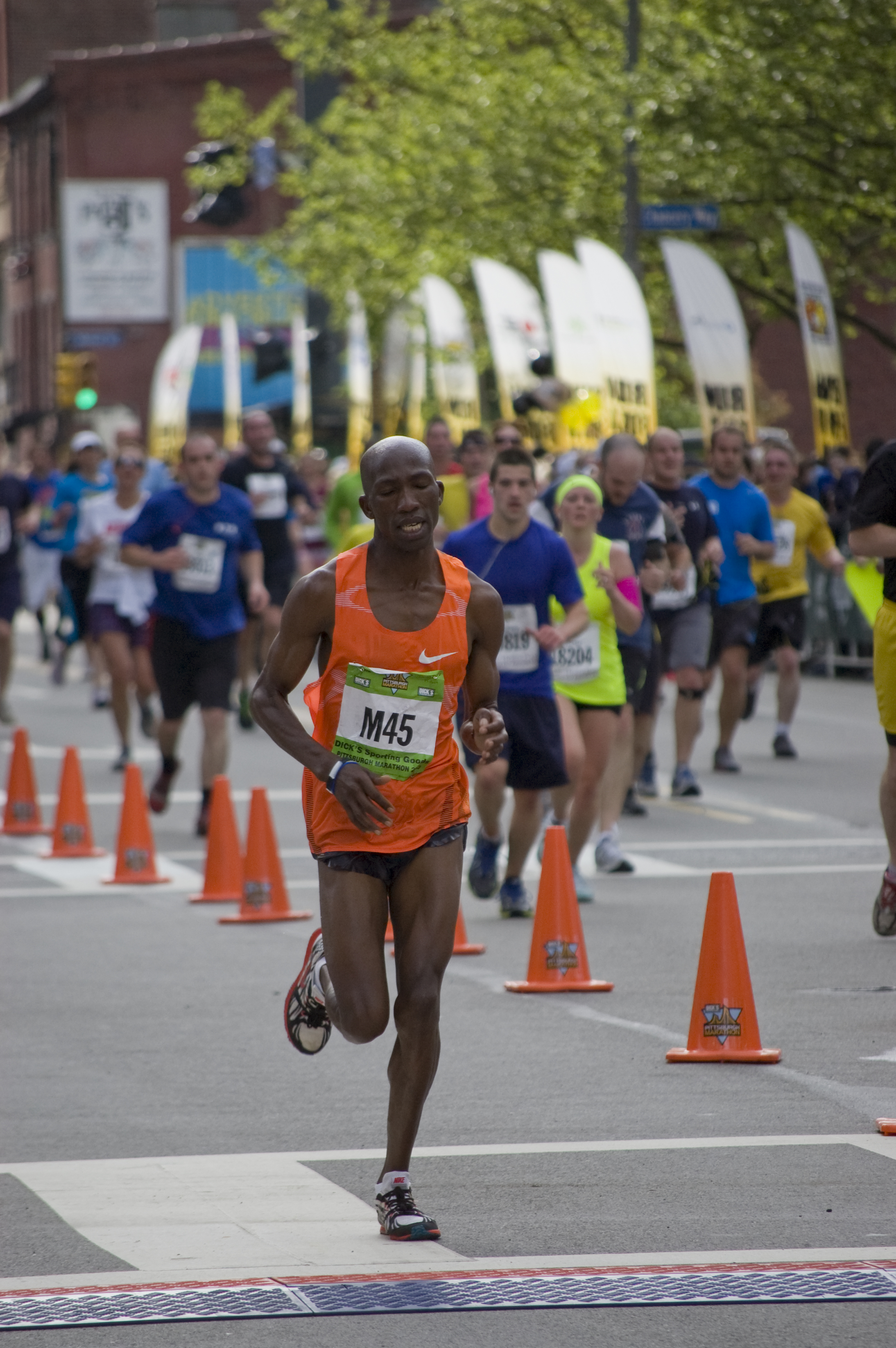 Jonathan Kibet finishing 3rd overall at the 2013 Dick’s Sporting Goods Pittsburgh Marathon in Pittsburgh, PA.